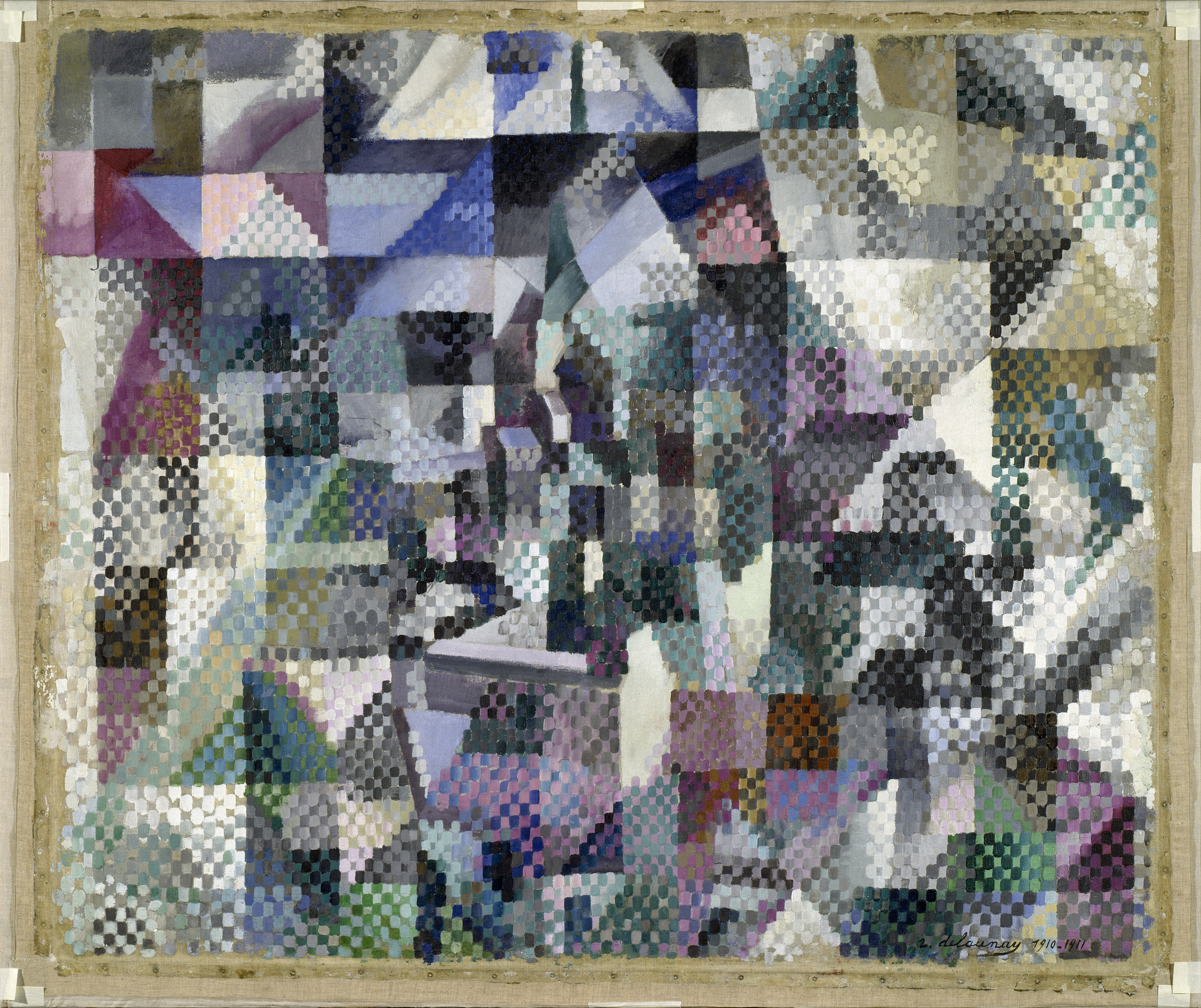 This file was provided to Wikimedia Commons by the Solomon R. Guggenheim Museum as part of a cooperation project. The Solomon R. Guggenheim Museum provides images depicting artworks which are public domain or licensed under a free license.